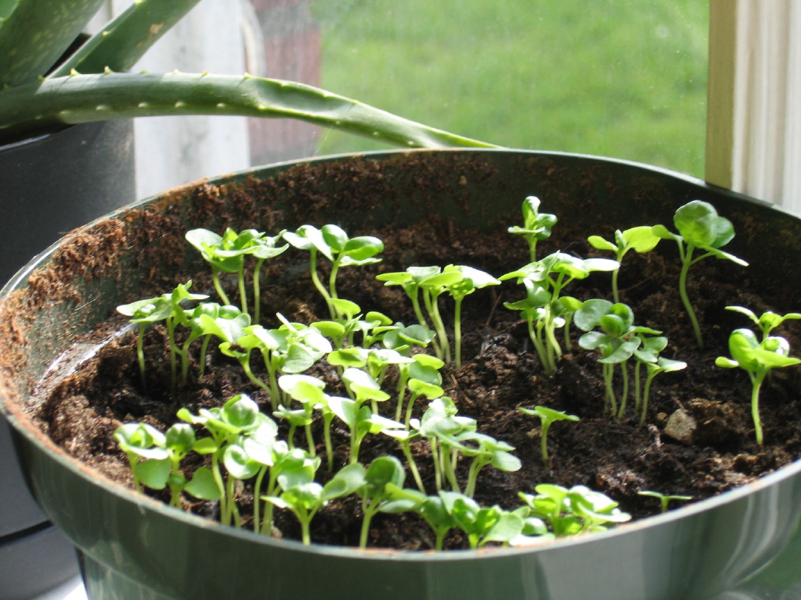 A pot of basil sprouts (Ocimum basilicum) on a windowsill.